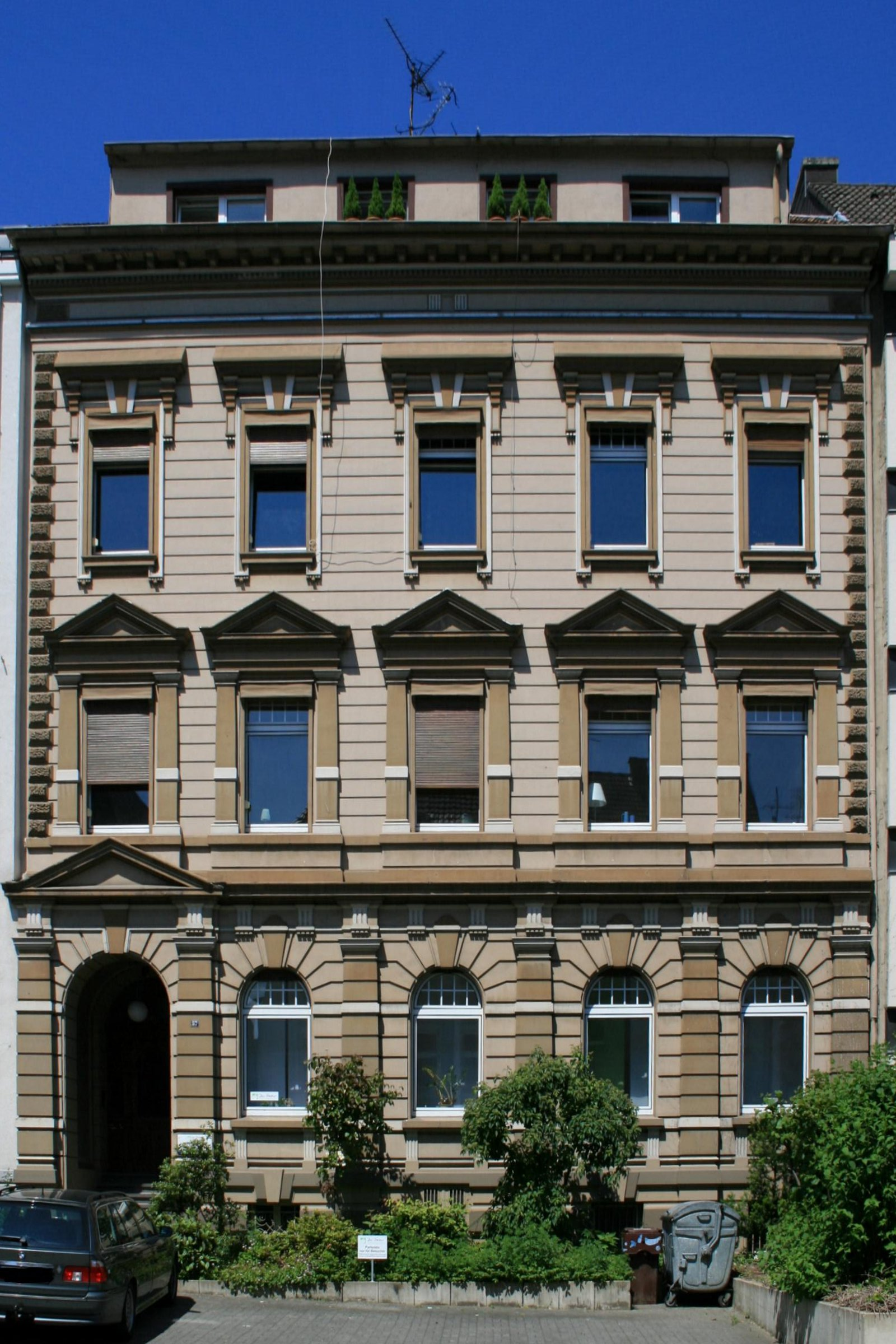 Cultural heritage monument No. R 009 in Mönchengladbach